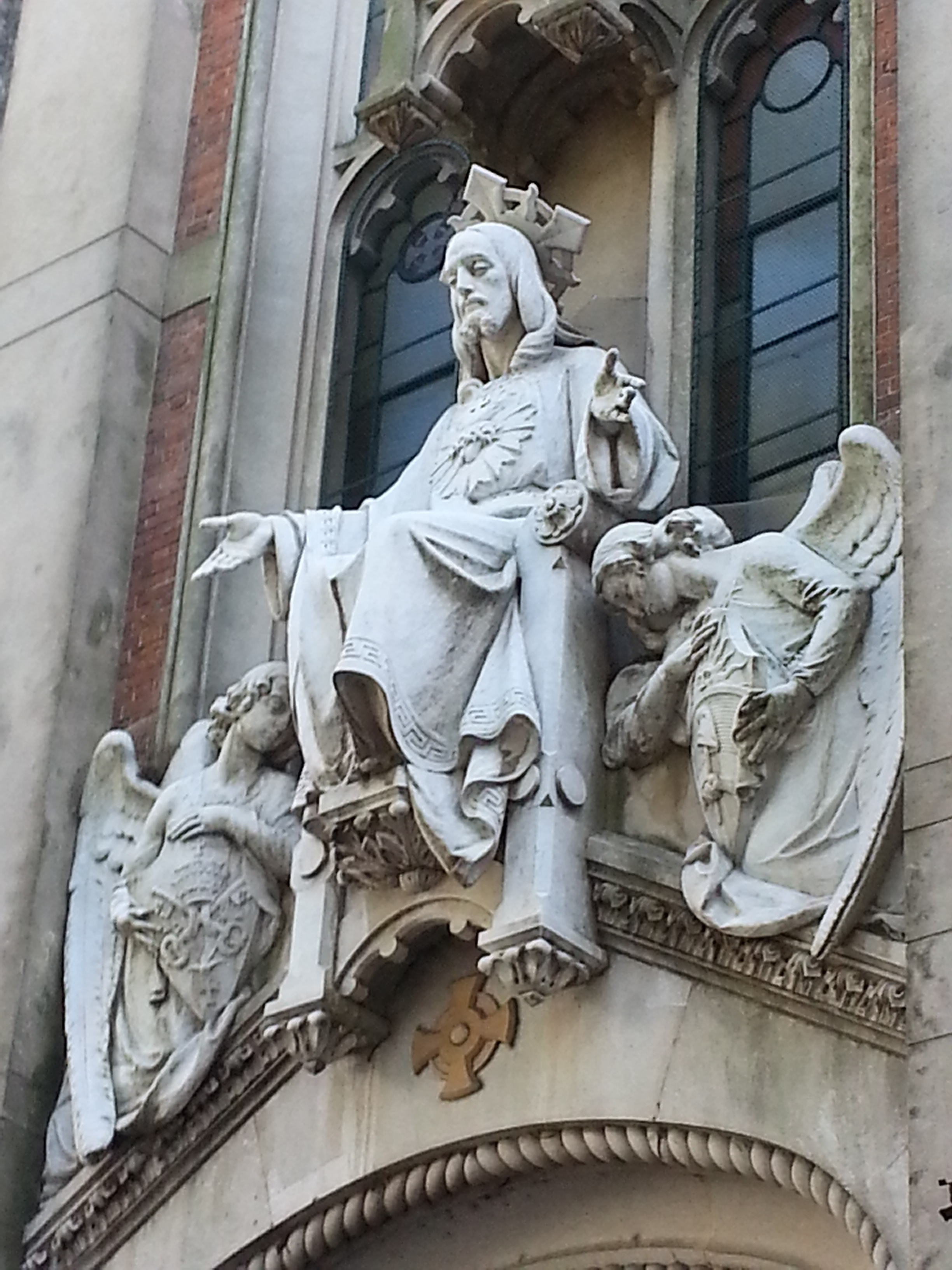 Above the entrance of the Basílic of Mary Help of Christians and St Charles Borromeo is the Christ Pantocrator, typical element of the Byzantine art also used in the Romanesque style. This sculpture was carved from a single block of marble by the Salesian artist Quintín Piana in the former School of Arts and Crafts, current College Pio IX. In this sculptural group, Christ is seated, flanked by two angels at his feet. Instead of depicting Christ with a somewhat stern aspect and with the right hand raised as is typical in a Pantocrator, Christ keeps his hands open and down at his sides, as a sign of welcome and blessing.